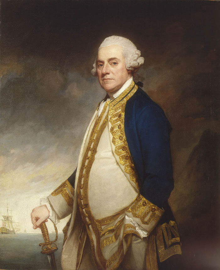 Portrait in oils by George Romney of Admiral Sir Charles Hardy (c. 1715-1780), 1780, size 1016 x 1270 mm, now in the National Maritime Museum, London (Greenwich Hospital Collection)